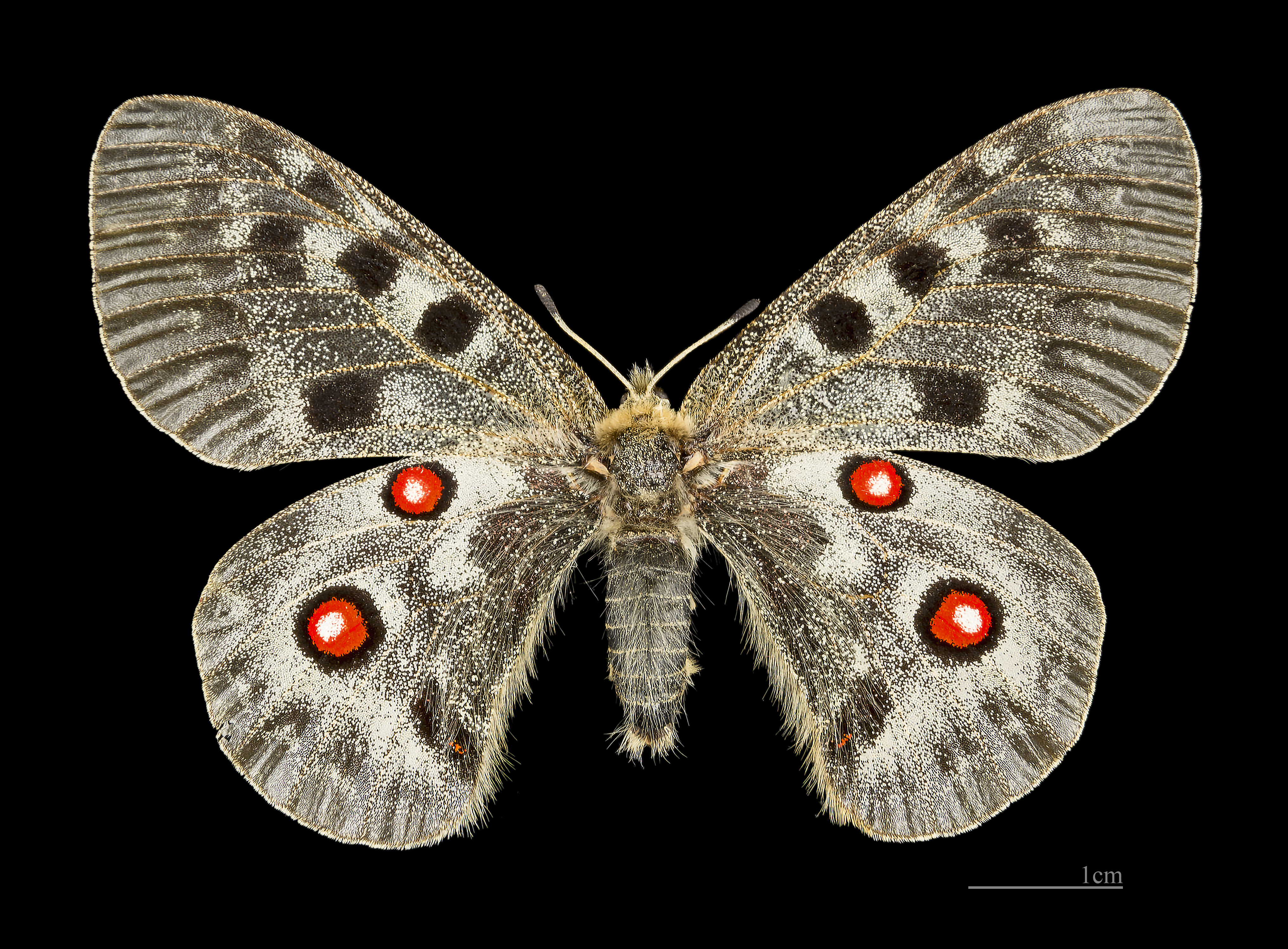 Mountain Apollo. △ Ventral side